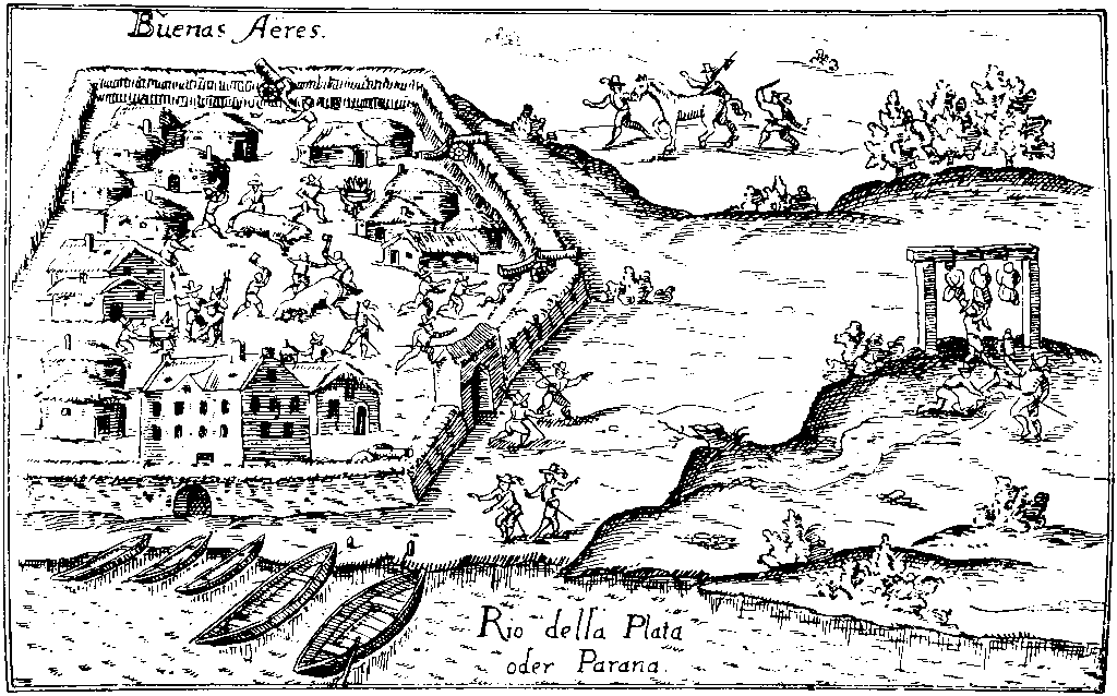 View of Buenos Aires shortly after its founding by Pedro de Mendoza y Luján in 1536.